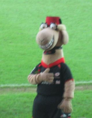 Saracens mascot Sarrie the Camel, pictured at the end of the team's 22–16 win over Leicester Tigers at Vicarage Road on 12 November 2006. Modified from the original Flickr photograph by WFCforLife on 13 July 2010